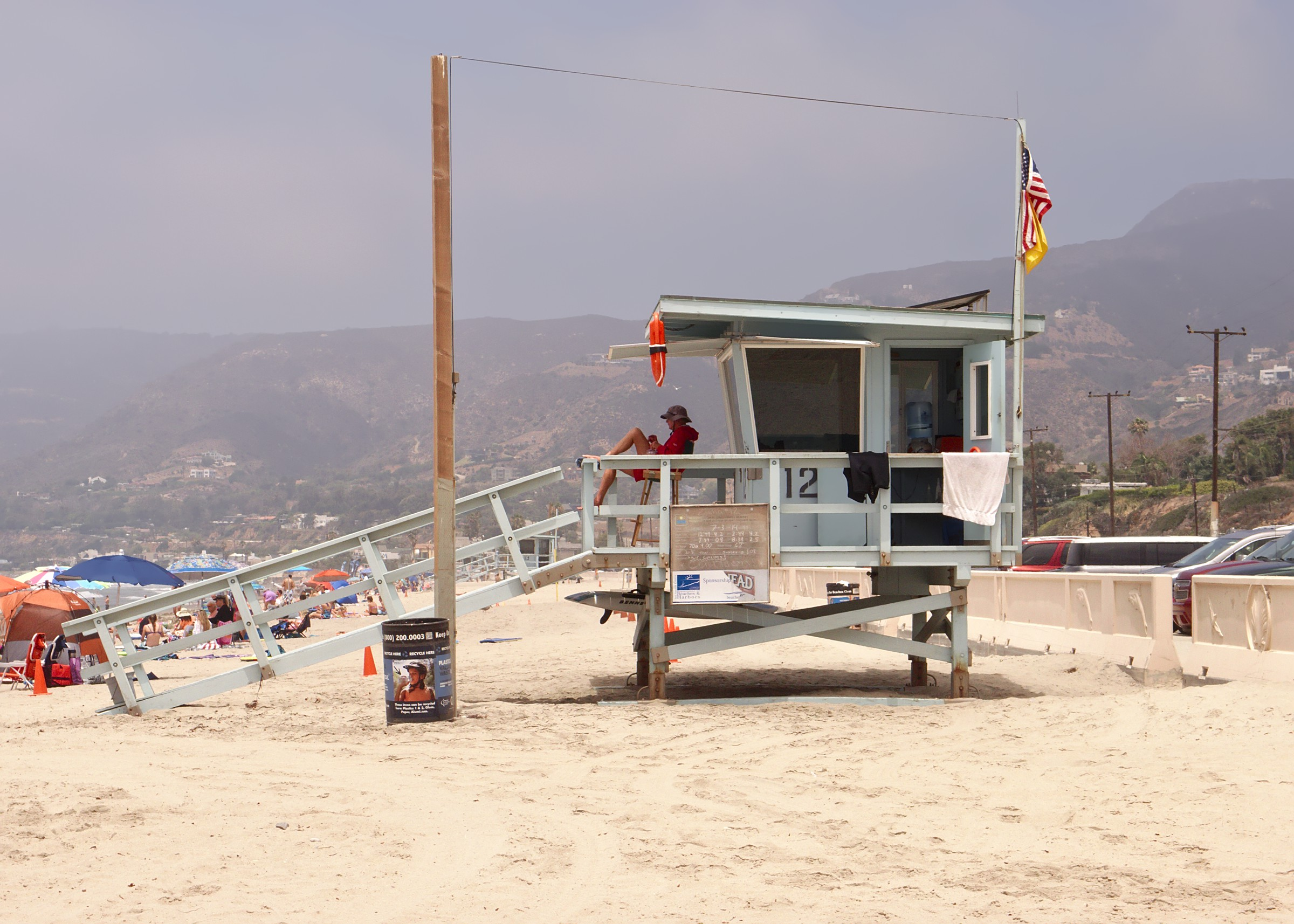 Lifeguard tower number 12 at Zuma Beach in Malibu.